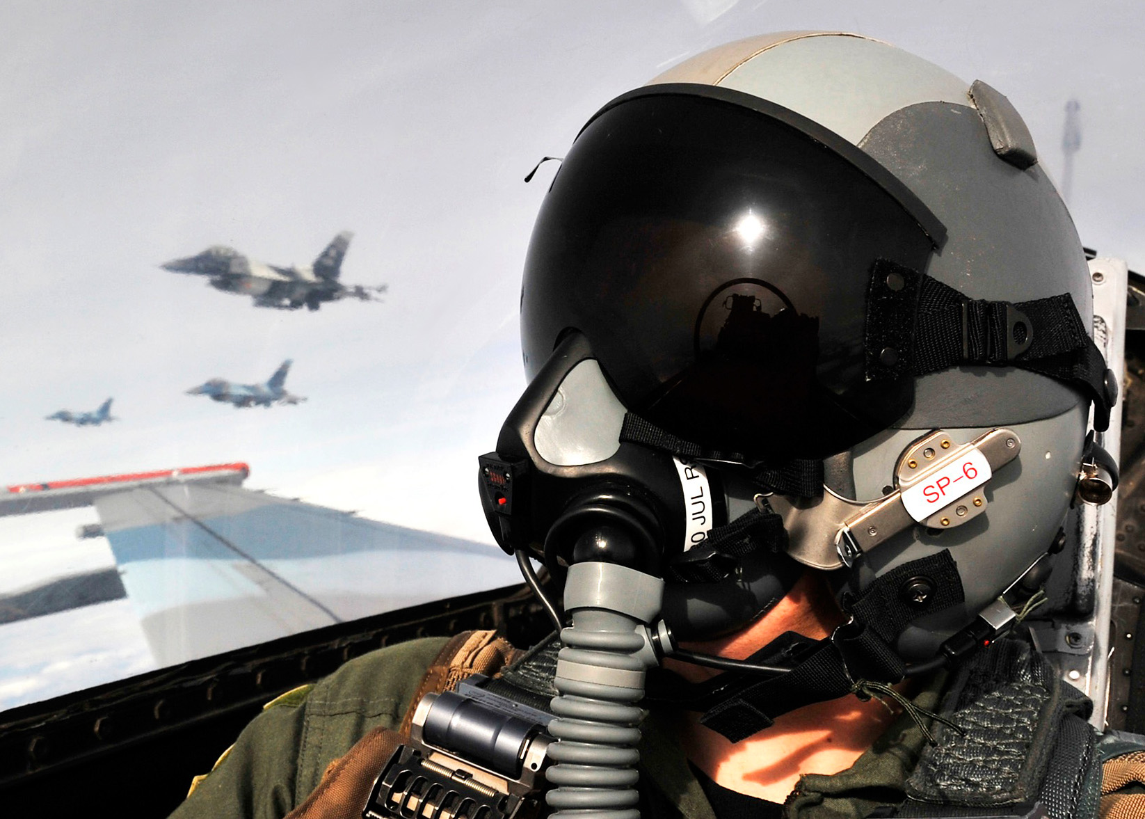 Playing the "enemy," F-16 Fighting Falcon "Aggressors" fly over the Joint Pacific Alaskan Range looking for opposing forces July 28 during Red Flag-Alaska at Eielson Air Force Base. The exercise is a Pacific Air Forces-directed field training exercise poised at giving aircrews their first 10 flights in combat. The F-16s are assigned to the 18th Aggressor Squadron.